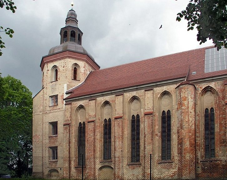 Germany Mirow Johanniterkirche